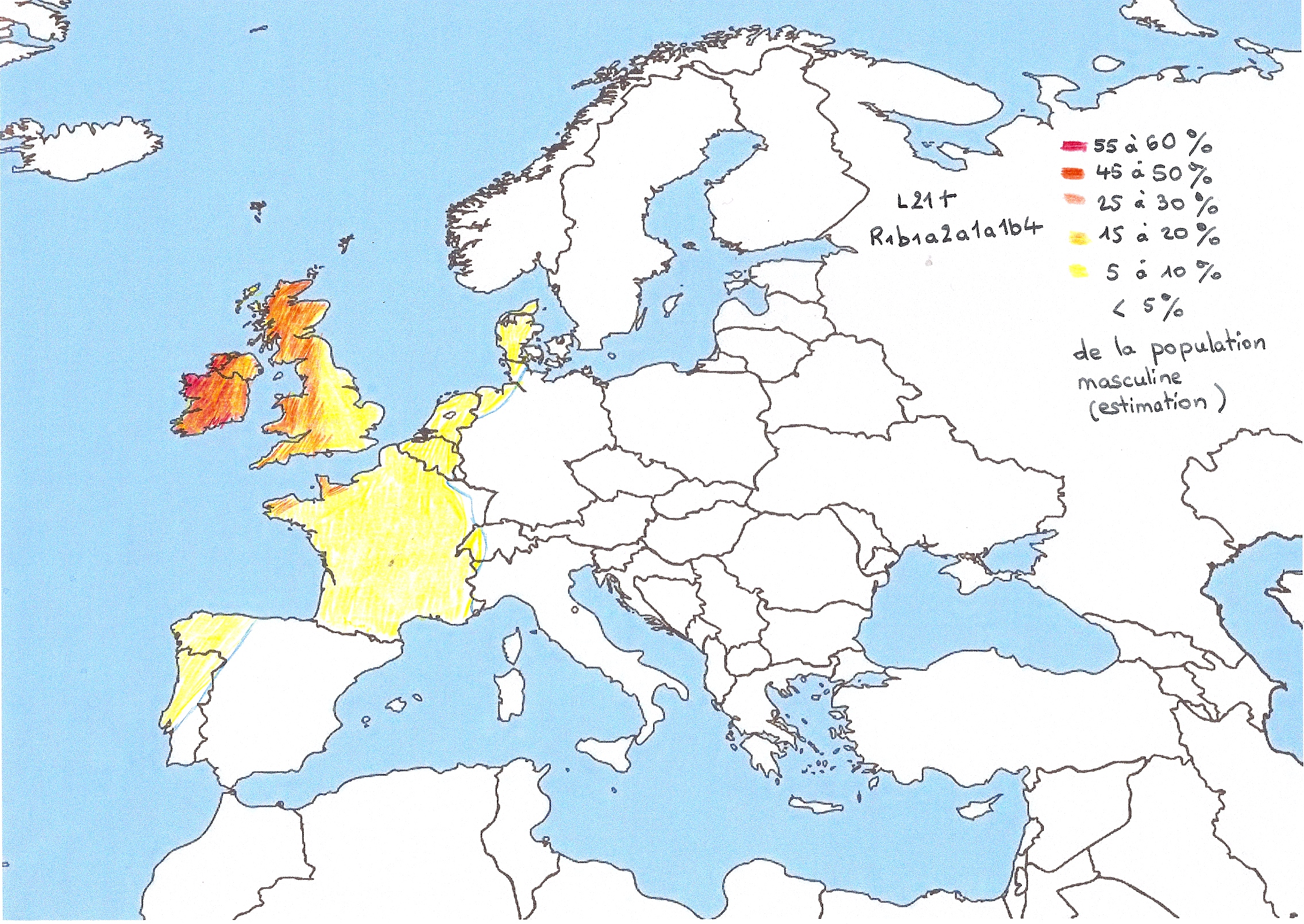 Genenitics and genealogy - Map of location of haplogroup R1b1a2a1a1b4 / R-L21+